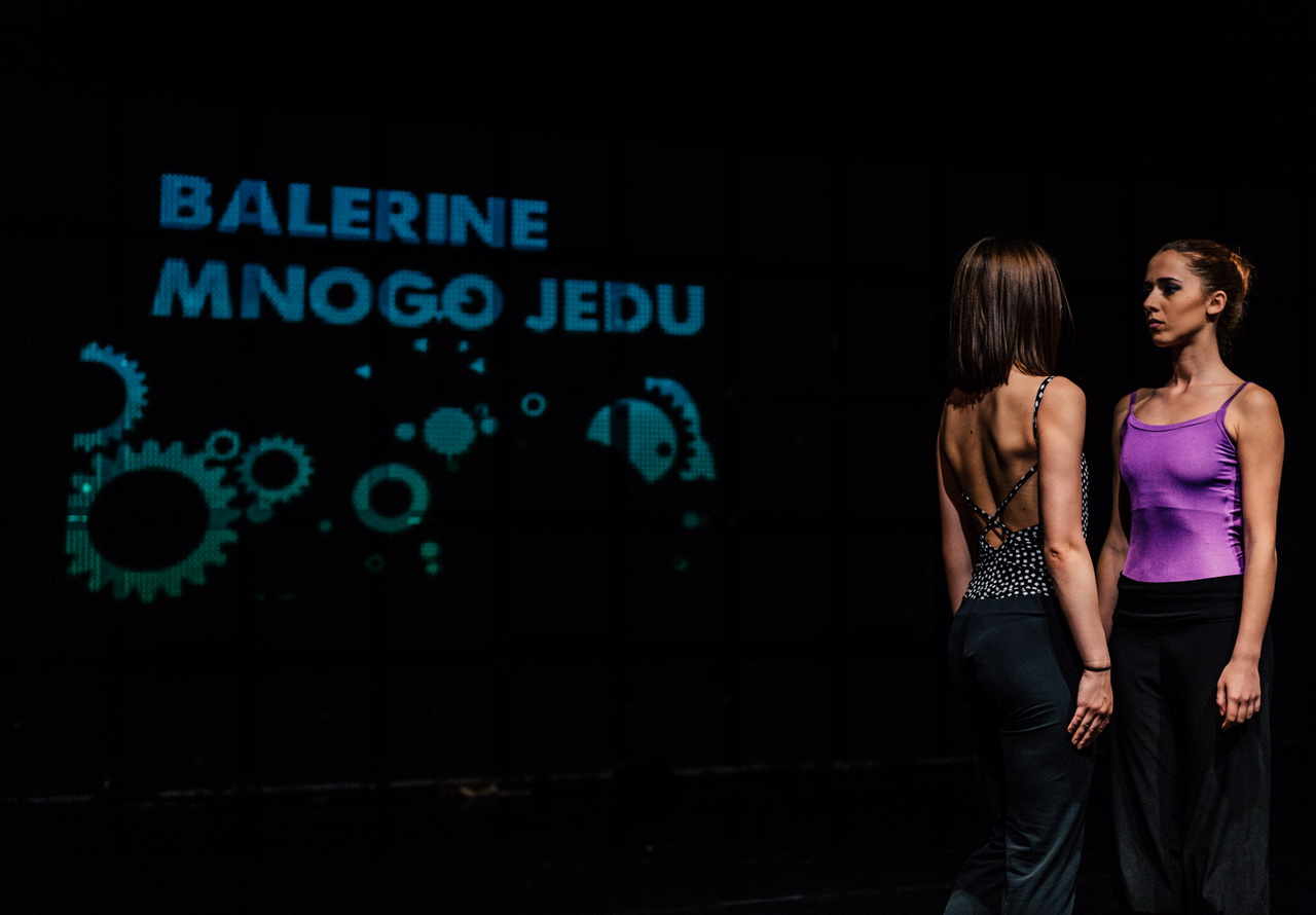 Ballerinas, New Dance Forum, Serbian Nacional Theatre, Novi Sad, director Milena Bogavac, season 2014/15 Srpski (latinica): Balerine, Forum za novi ples, Srpsko narodno pozorište, Novi Sad, reditelj Milena Bogavac, sezona 2014/15 Српски (ћирилица): Балерине, Форум за нови плес, Српско народно позориште, Нови Сад, редитељ Милена Богавац,сезона 2014/15